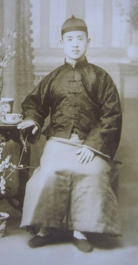 Photo of Liu Wanchuan